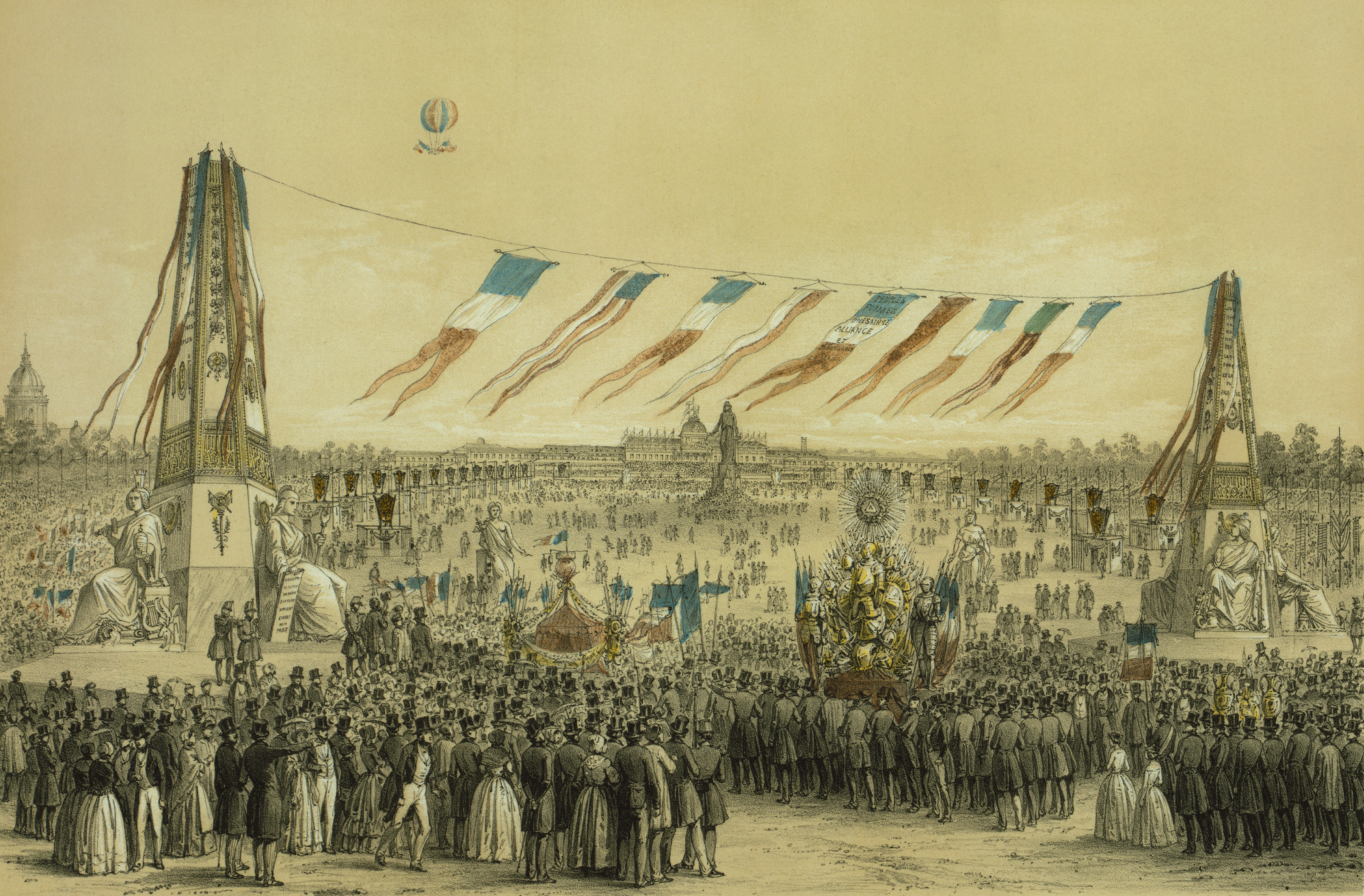 Fête de la Concorde ('Concord festival' May 21, 1848). Professional associations arrive in the Champ-de-Mars.